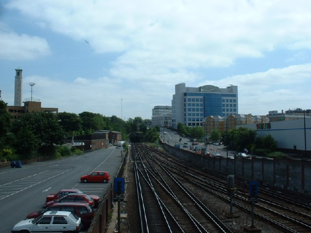 Southampton railway tunnel. Looking East from the footbridge by Southampton Central Station towards where the railway tunnels underneath the city centre.